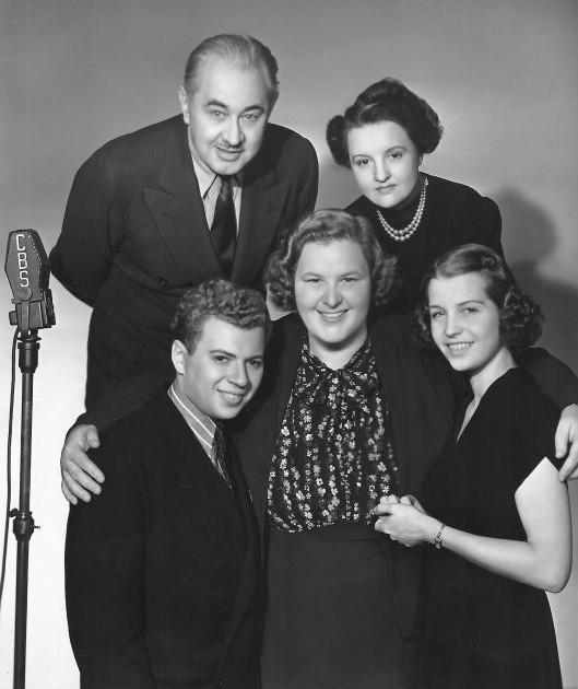 Photo of Kate Smith and what was to become the radio program The Aldrich Family from Smith's radio show, The Kate Smith Hour. Ezra Stone, the young male lead, had a role in the Broadway play What A Life, when he was tapped for the role as Henry Aldrich. Standing at back, from left: Blaine Fillmore and Lea Penman as Henry's parents, Mr. and Mrs Aldrich. From left: Ezra Stone as Henry Aldrich, Kate Smith, Betty Field as Henry's girlfriend.